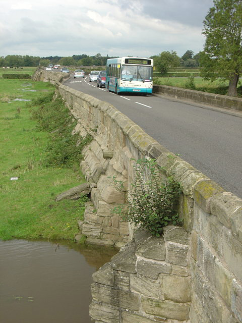 Bus to Swad. The Derby to Swadlincote bus crosses Swarkestone Causeway.